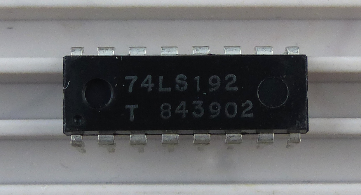 Integrated circuit 74LS192 - synchronous presettable up/down decade counter, clear - manufactured by Tungsram, Hungary